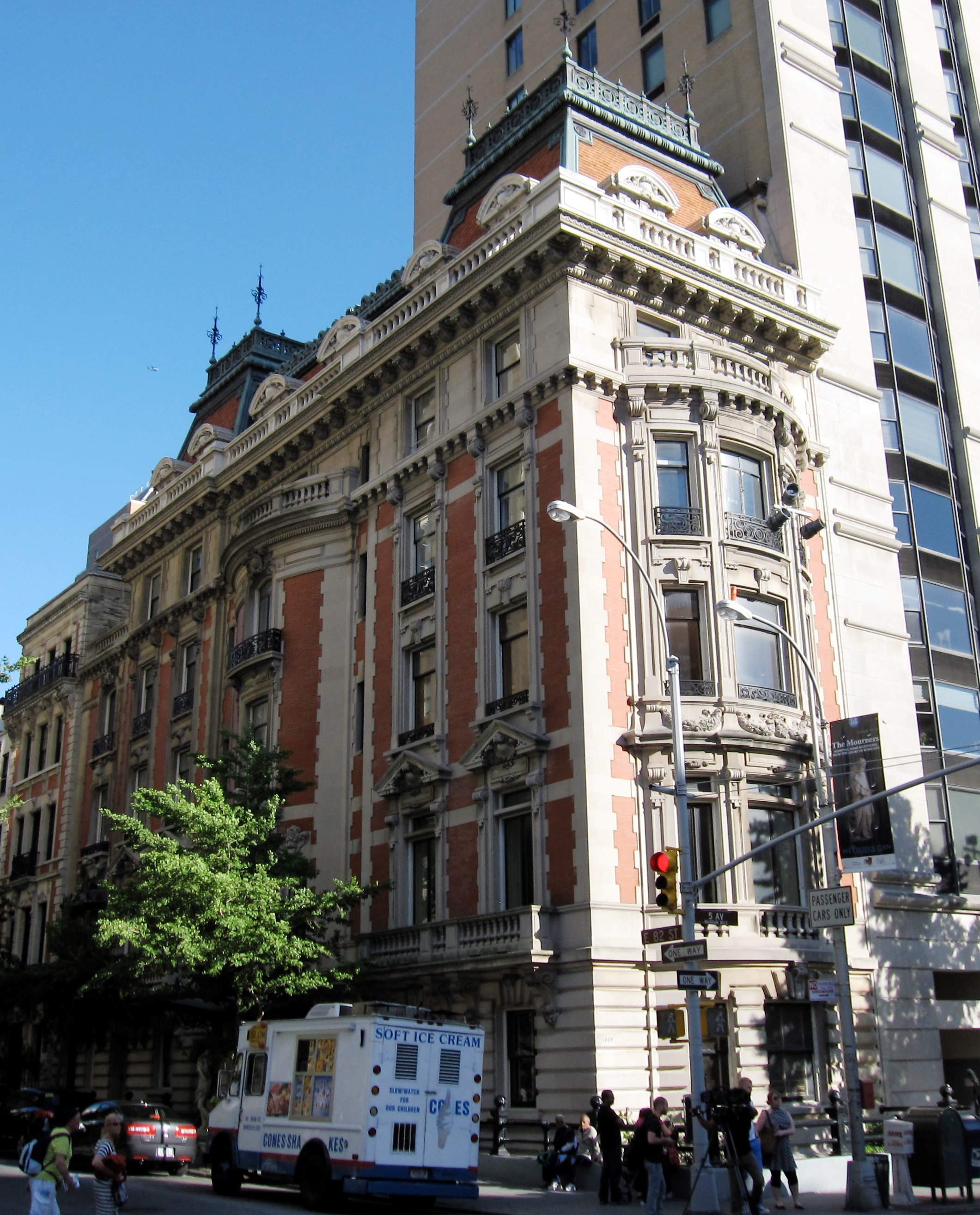 1009 Fifth Avenue